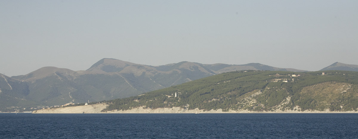 Cape Doob lighthouse, Russia, Black sea, Novorossiysk.